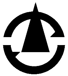 Yahiko Niigata chapter